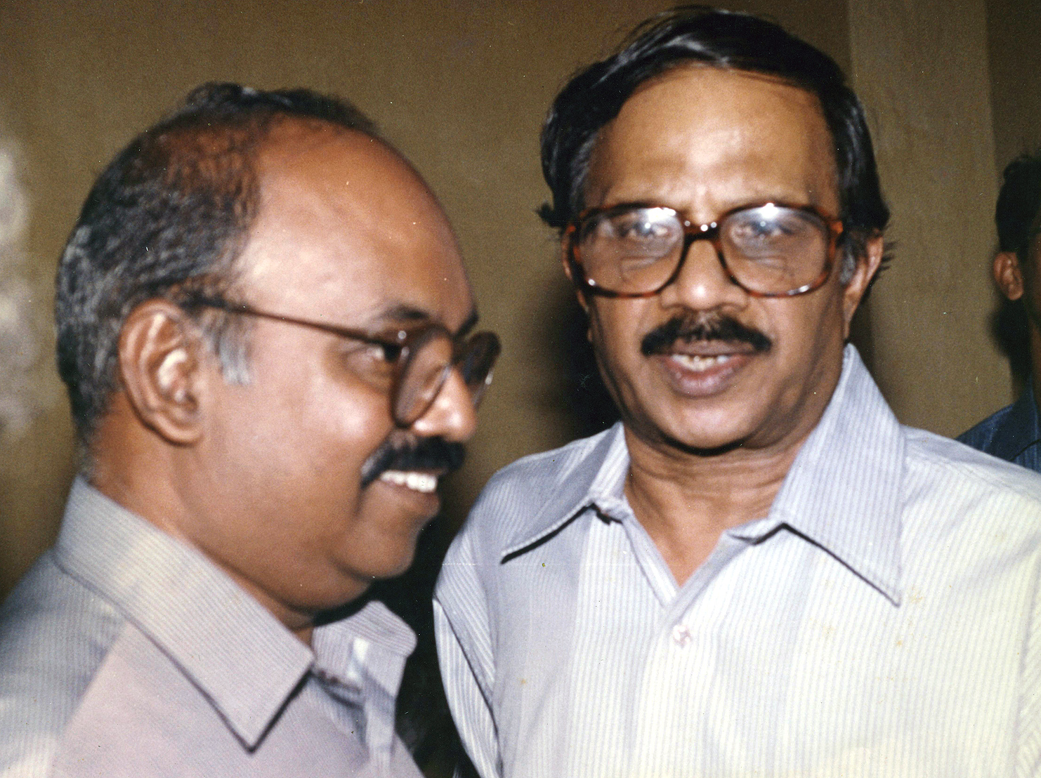 Indian cinematographer Ramachandra Babu and writer M.T. Vasudevan Nair.